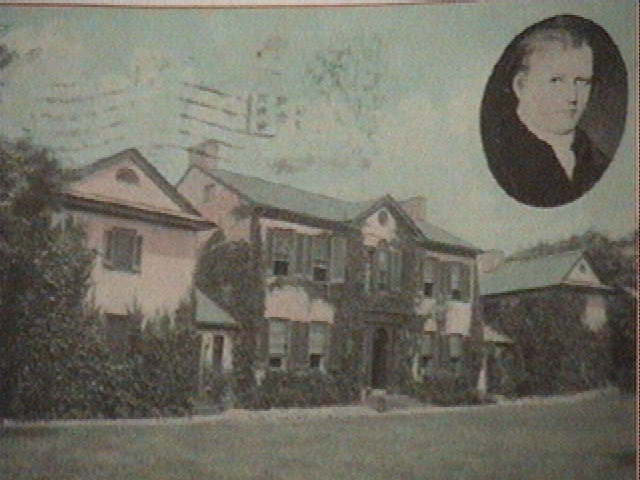 A mansion built in Steubenville, Ohio in 1798 by Bezaleel Wells, founder of the city. After Wells' bankruptcy, it was bought by Samuel Stokely. It was torn down early in the 20th century. It is seen in a 1912 postcard. Inset is portrait of Wells.